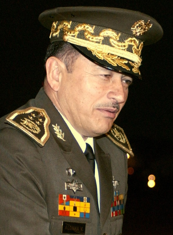 Guatemalan Minister of Defense Brig. Gen. Carlos Humberto Aldana Villanueva, cropped from photo U.S. Ambassador to Guatemala John Hamilton (2nd from right) introduces Secretary of Defense Donald H. Rumsfeld (right) at the Guatemala La Aurora International Airport in Guatemala City on March 23, 2005. Rumsfeld is traveling to South and Central America to meet with key government officials and his defense counterparts to strengthen bilateral ties.